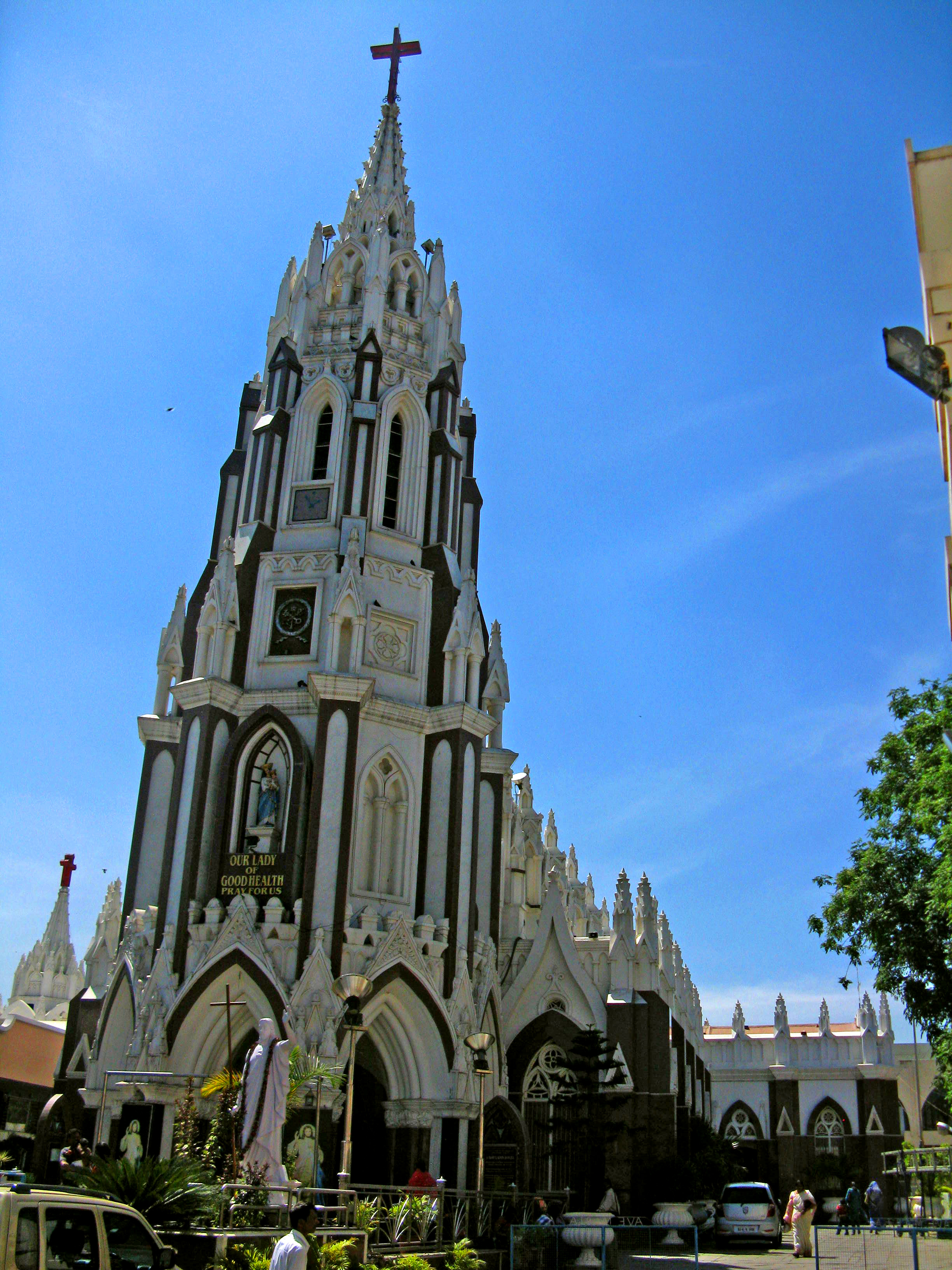 St.Mary's Basilica,Sivaji Nagar,Bangalore